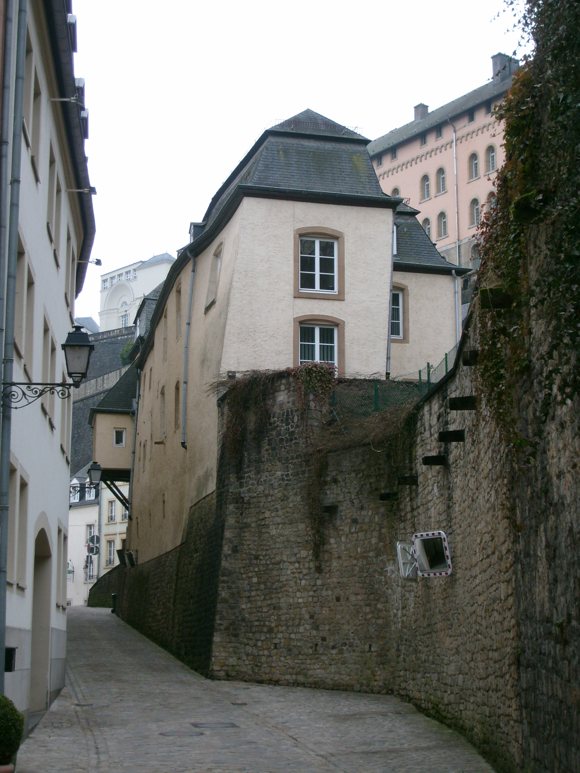 Building of INECC, Institut européen de chant choral, Luxembourg-city